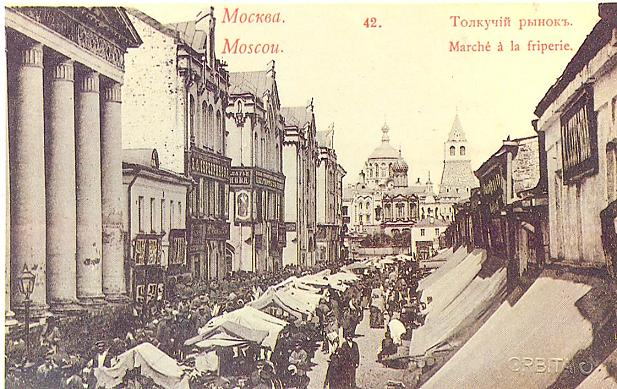 Flea market on the Novaya Square